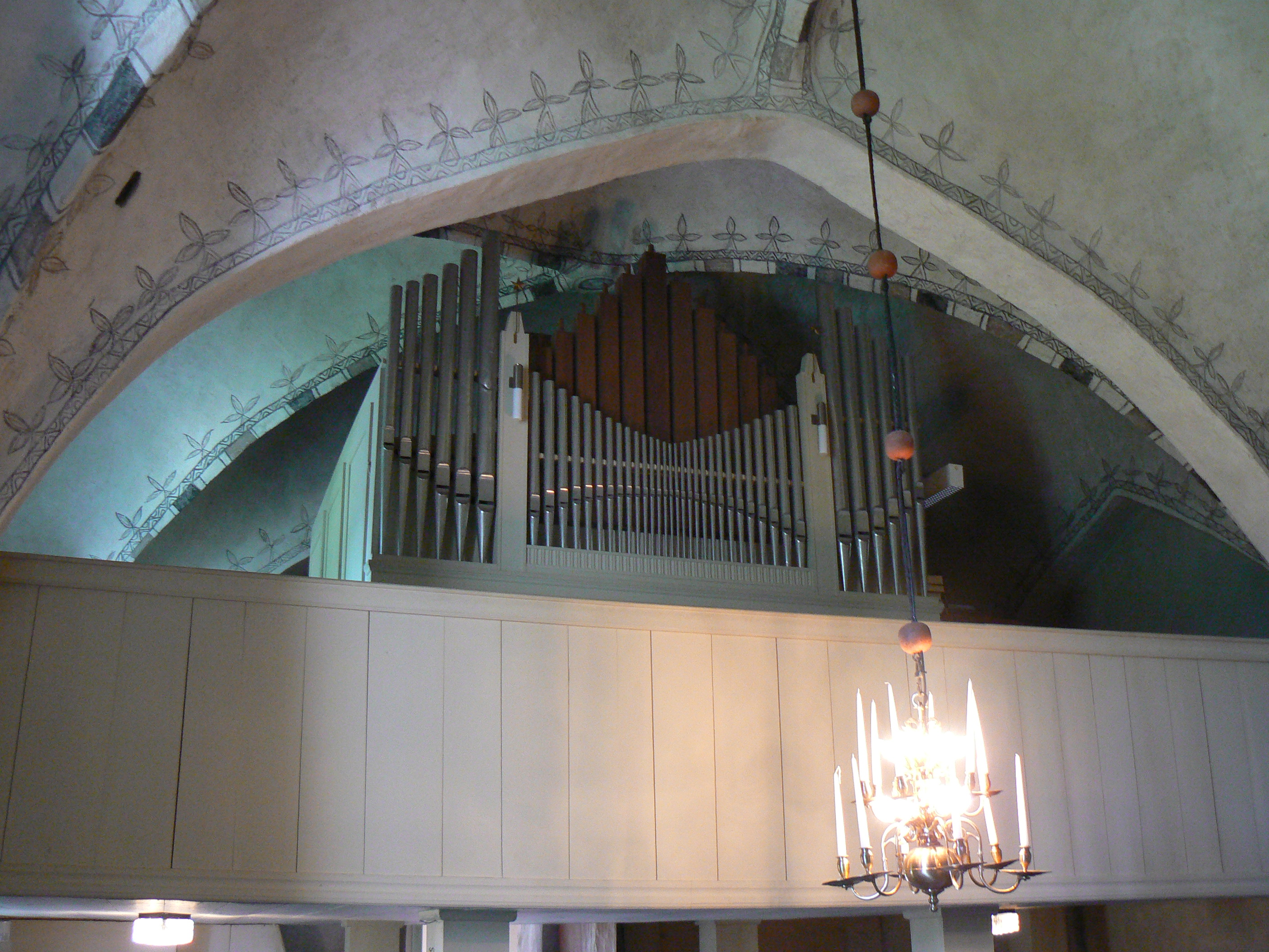 The organ pipes of the Lillkyrka Church organ, Lillkyrka, Linköping, Sweden.